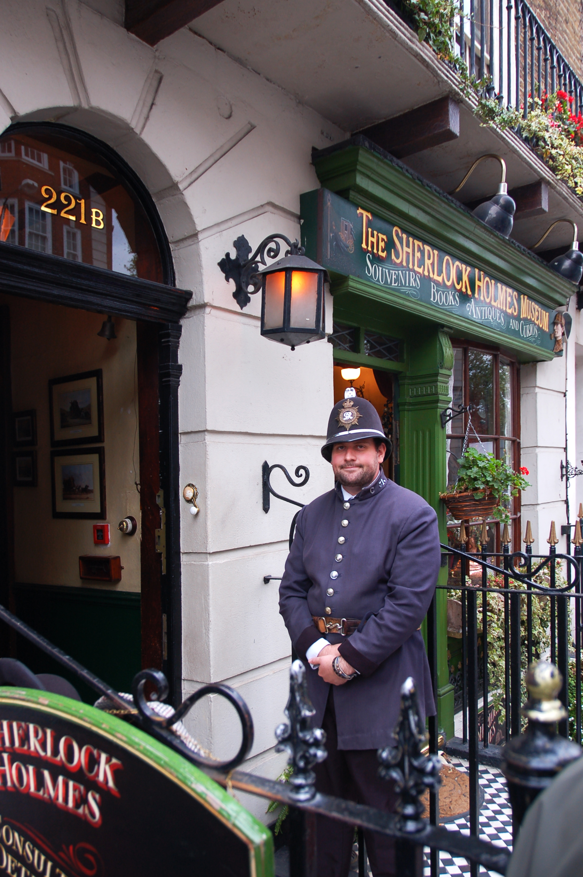 Policeman The Sherlock Holmes Museum at Baker Street 221b in London, UK